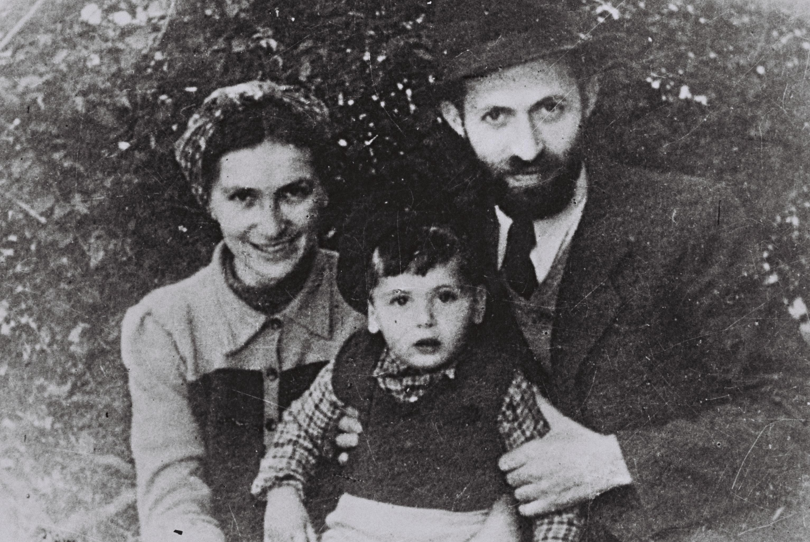 Menachem Begin during his "Rabbi Sassover" period with wife Aliza and son Benyamin-Zeev in Tel Aviv. Courtesy Jabotinsky Institute.